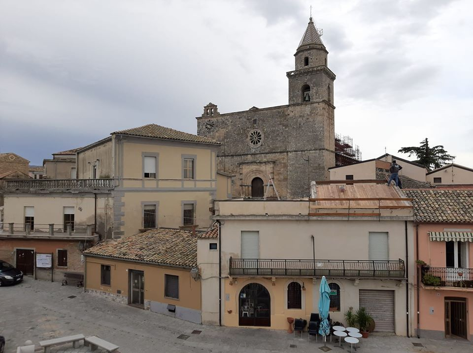 Cropani's church